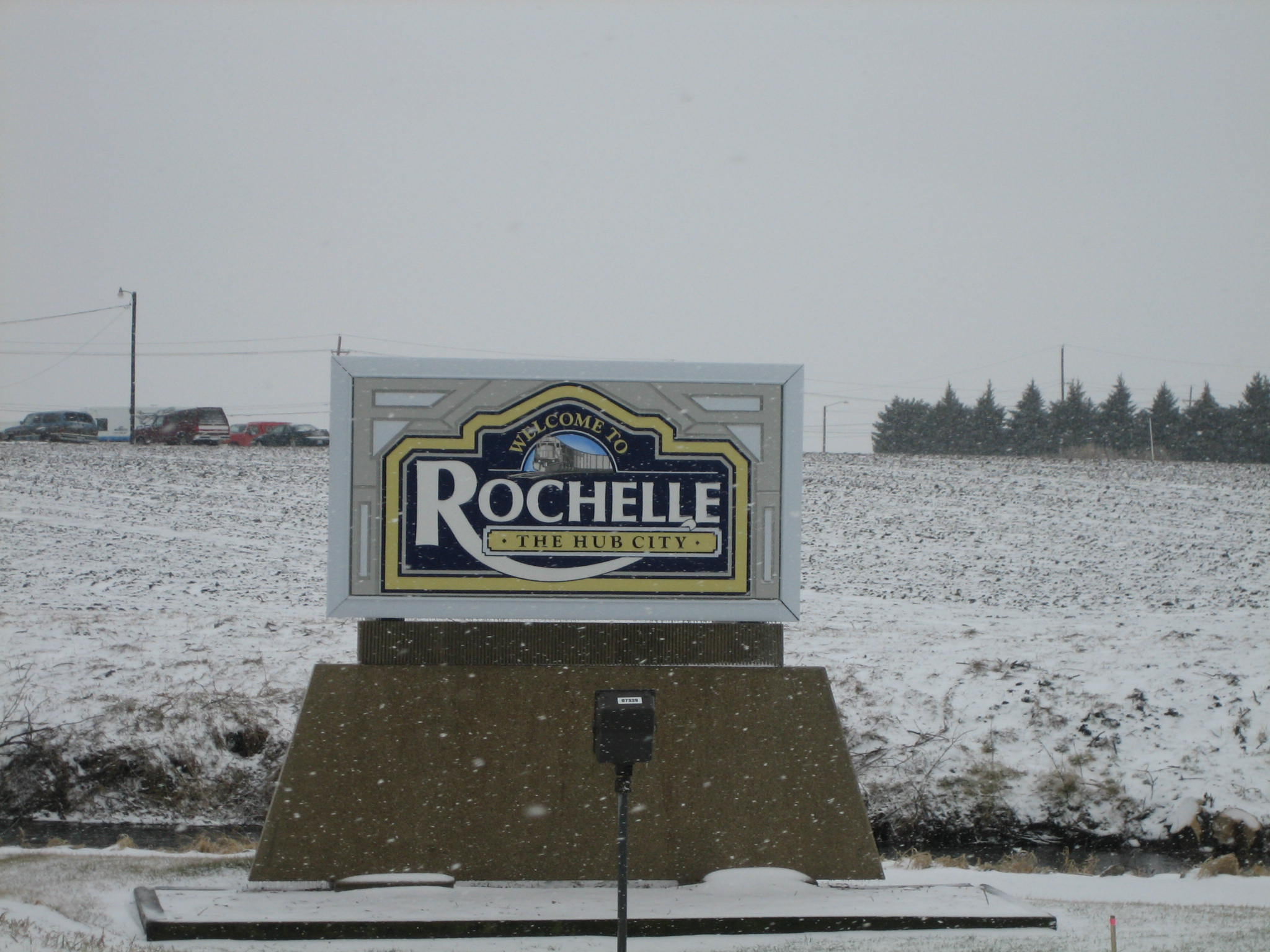 Signage upon entry into the city of Rochelle, Illinois, United States.